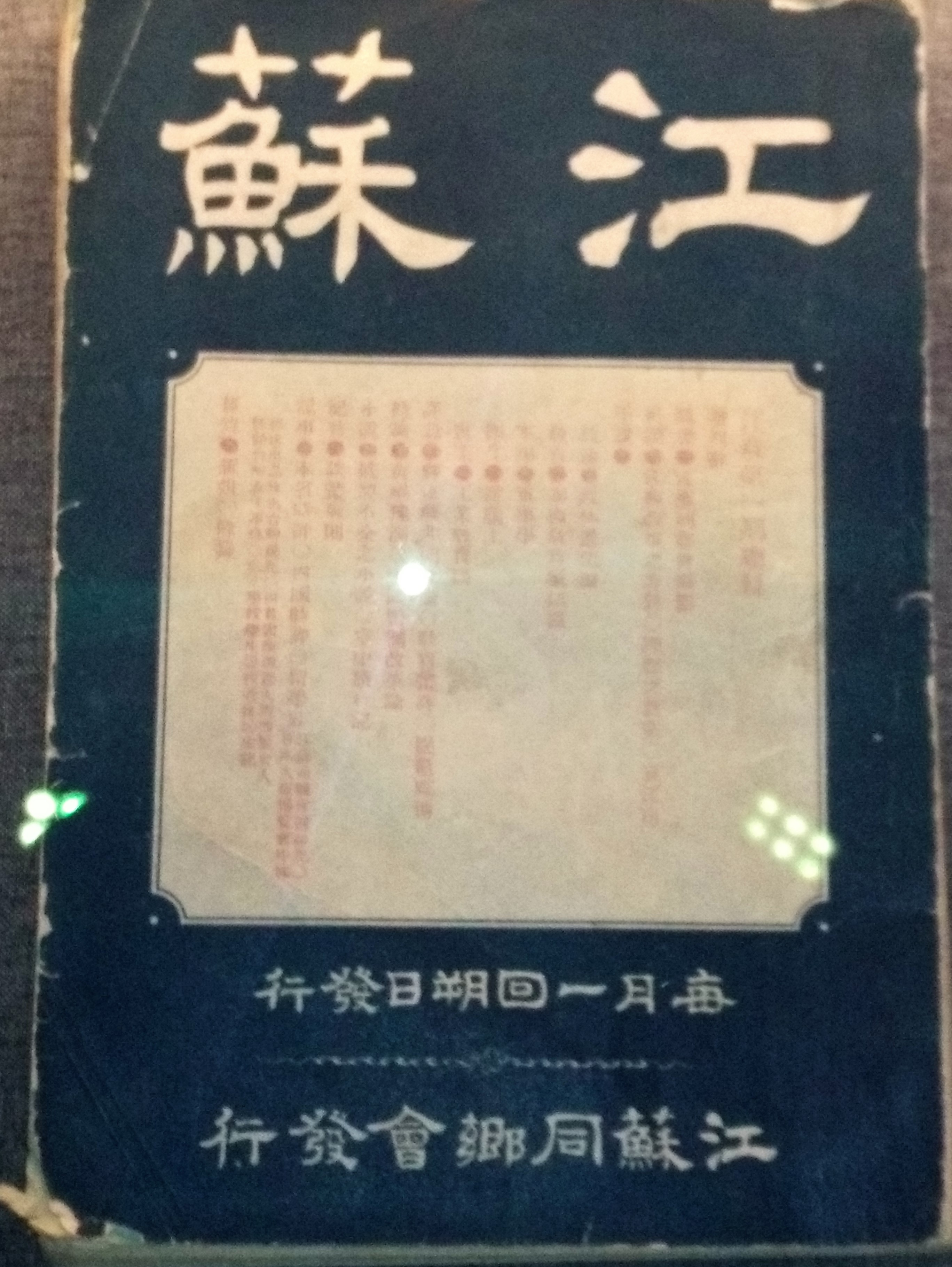 Jiangsu Magazine, Volume 1 (Apr 1903)